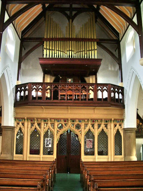 Interior of St John the Evangelist, The Willows, Kirkham